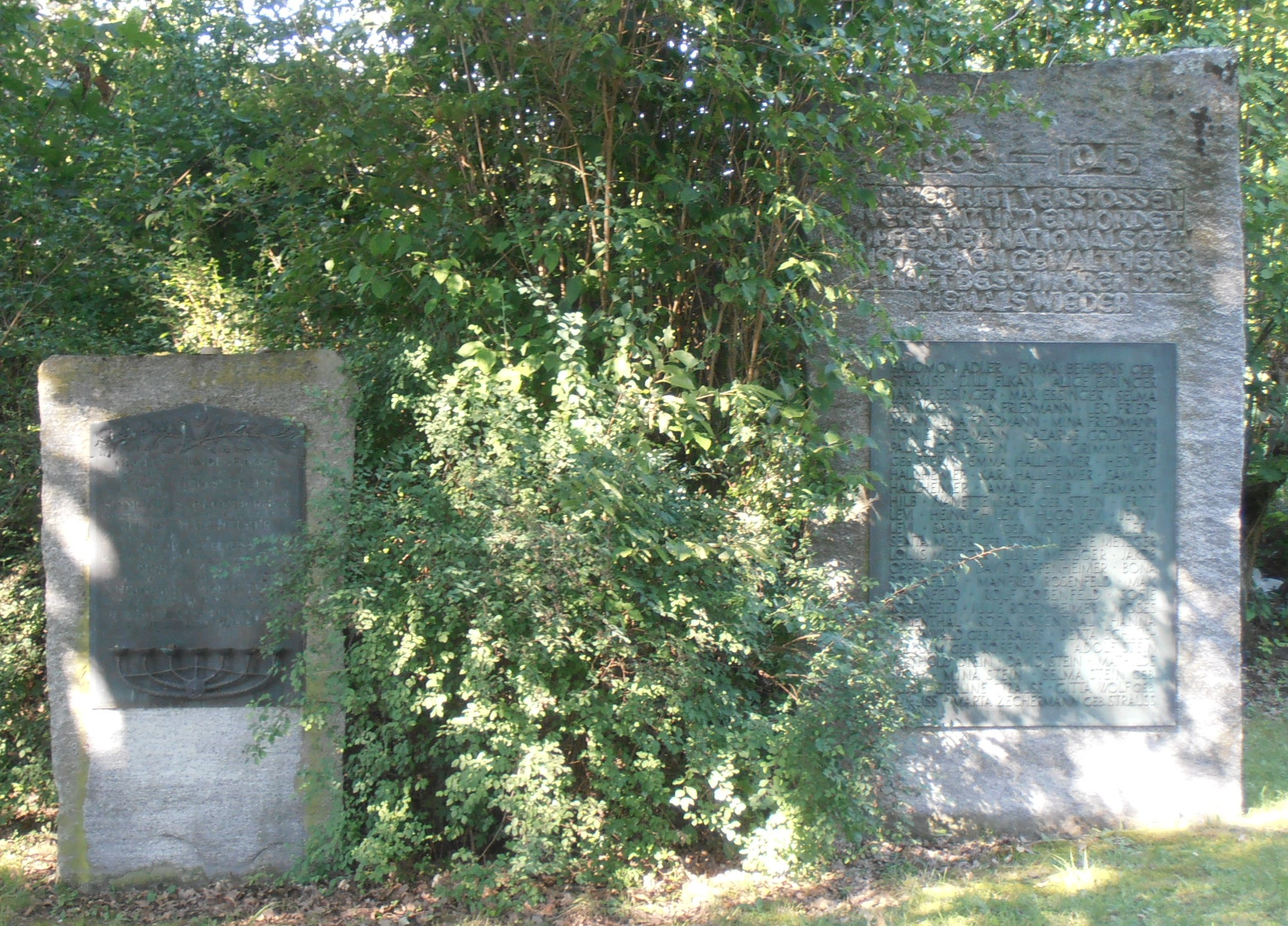 בית עלמין Jewish cemetery in CRH